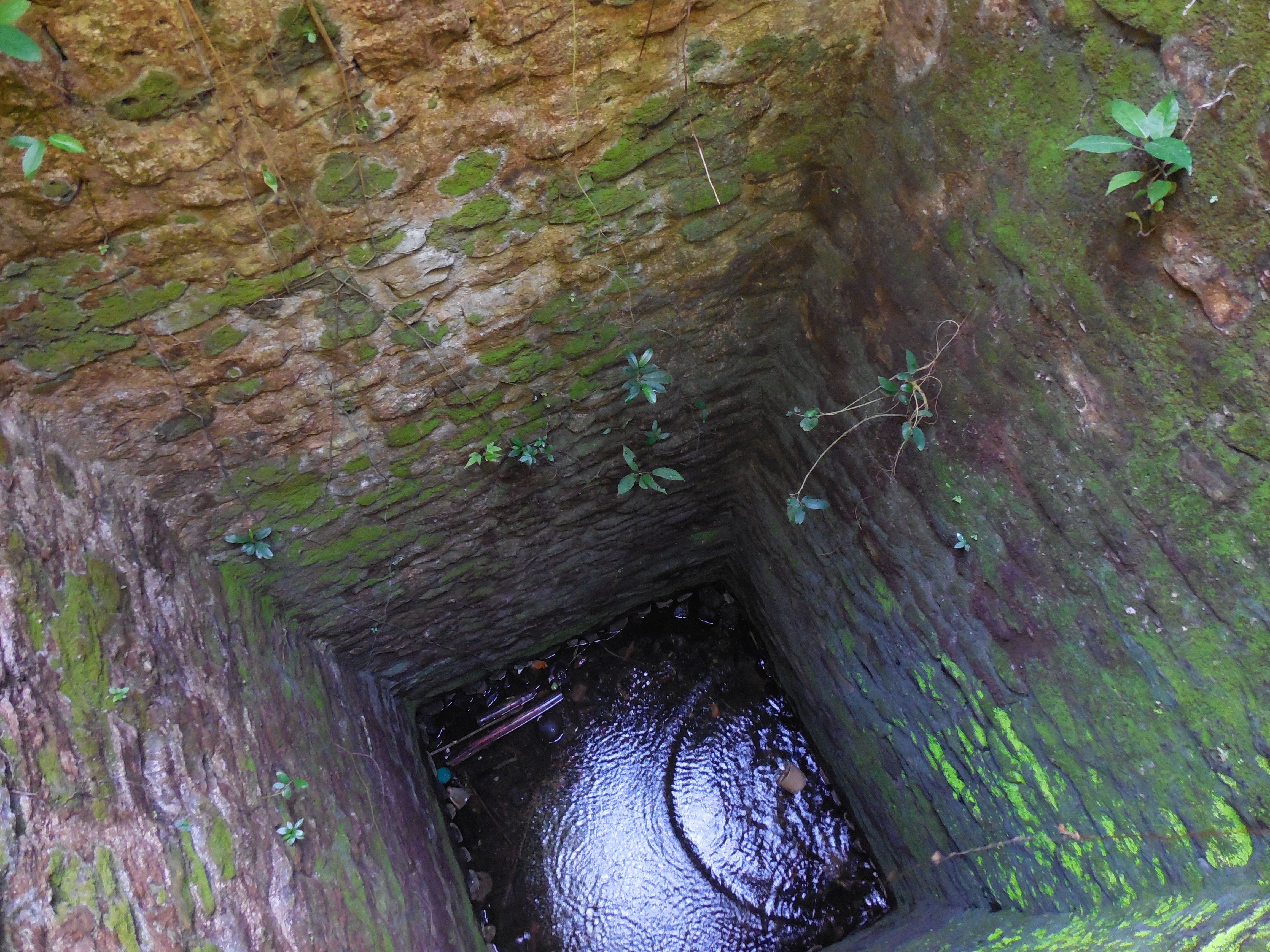 This is the oldest well in Banton, Romblon, built during the Spanish era and is still being used today. Taken using my Nikon Coolpix S6500 camera.